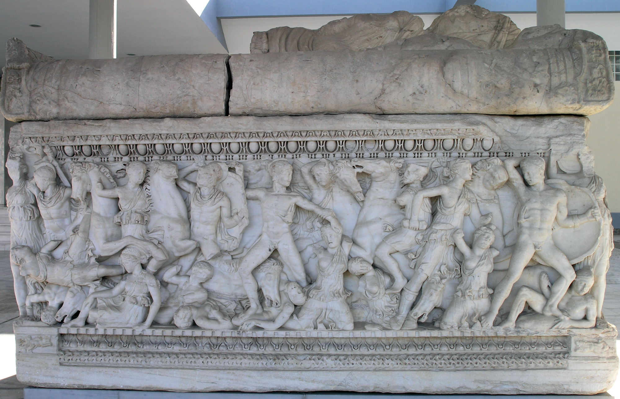 Sculpted neo attic sarcophagus representing an amazonomachy in the Thessaloniki Archaeological Museum, inv. 1245. Second quarter of the 3rd c. AD. Photograph taken by Marsyas 17:38, 25 February 2006 (UTC)